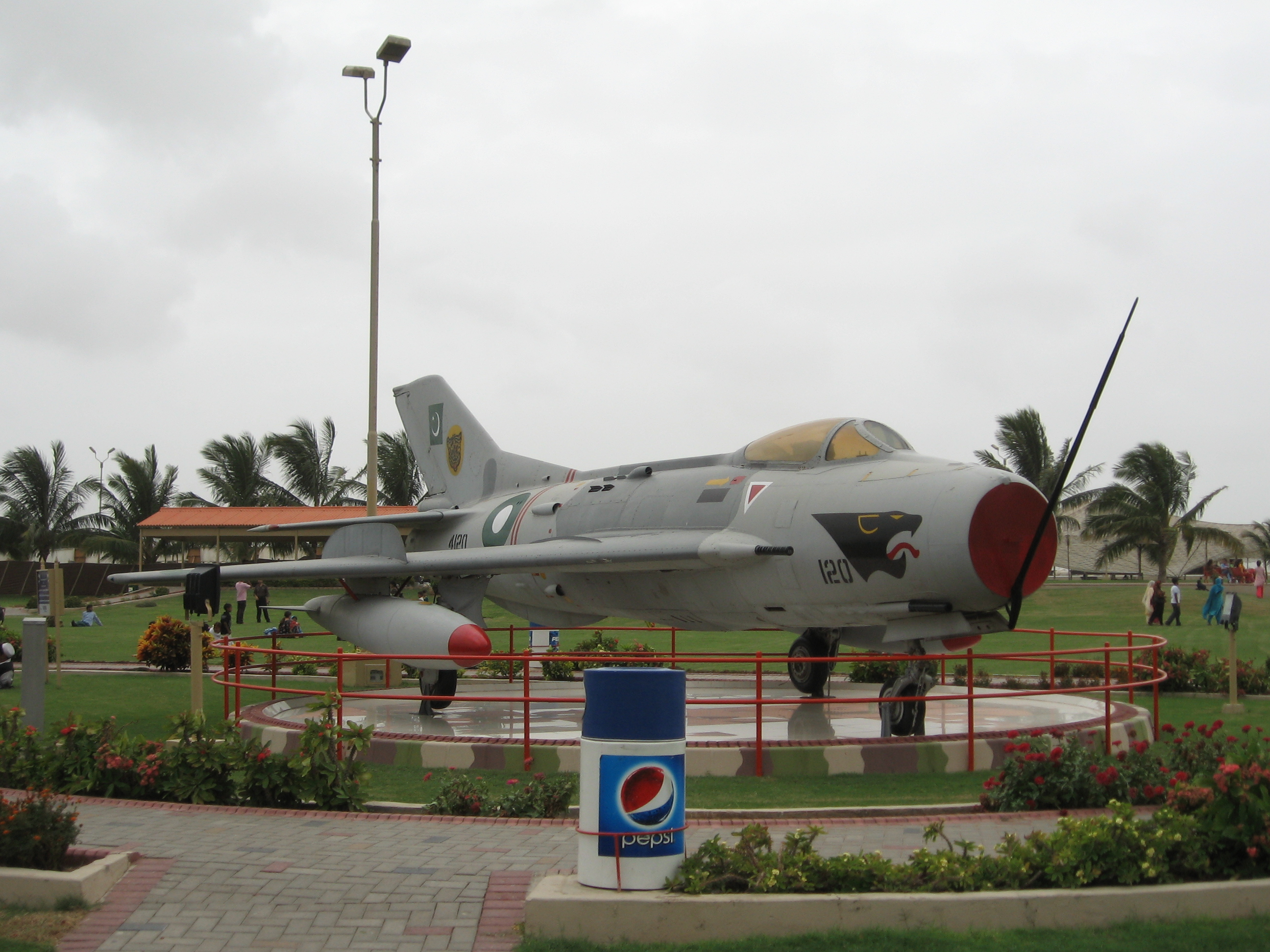 Shenyang F-6 Aircraft at PAF Museum, Karachi, Pakistan